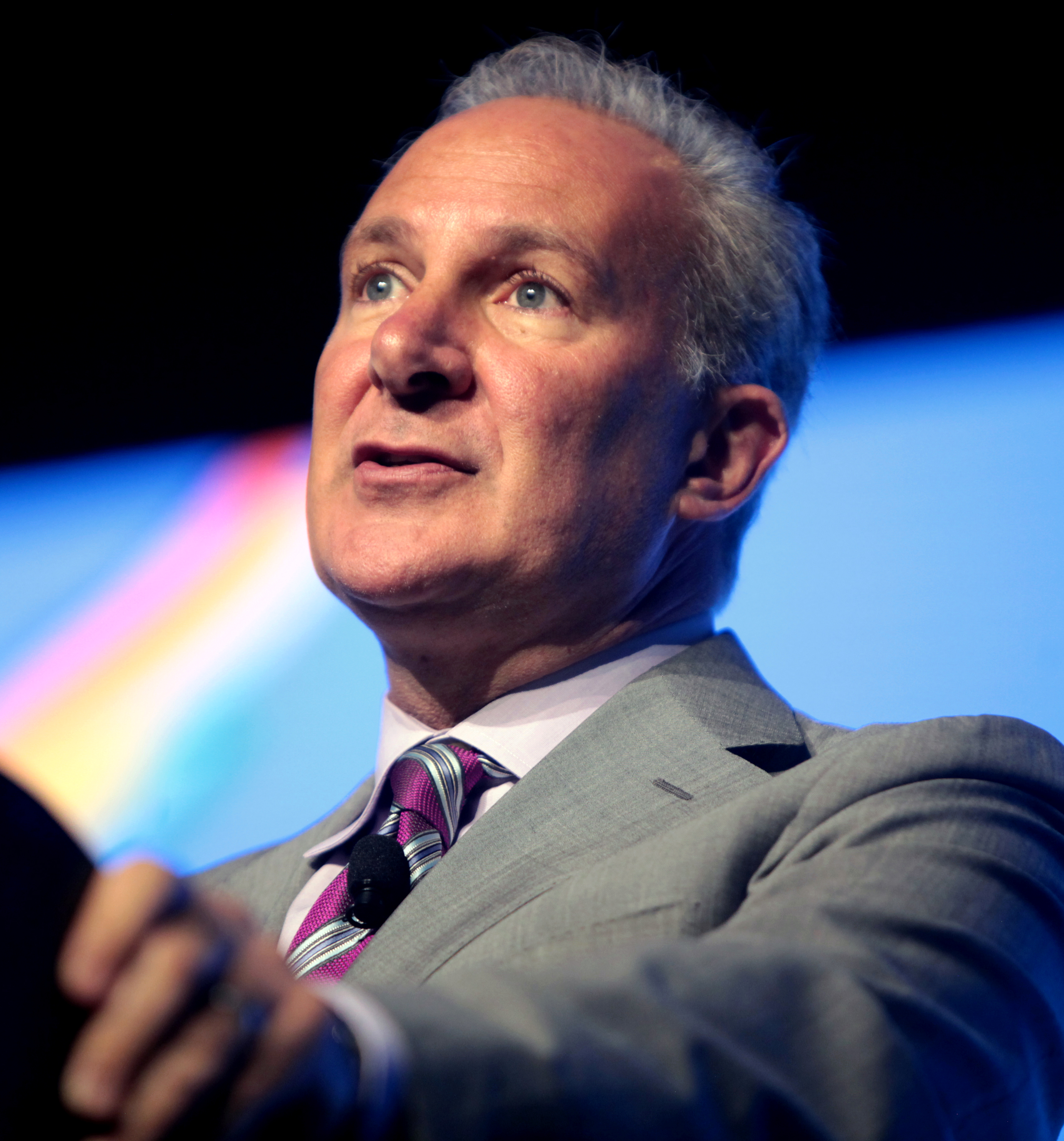 Peter Schiff speaking at an event in Las Vegas, Nevada.